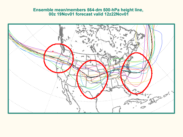 This shows the 5640 meter isohyet at the 500 hpa level in the Earth's atmosphere utilizing 10 NCEP global ensemble members for a forecast 3.5 days into the future. The areas of greatest uncertainty are circled in red.